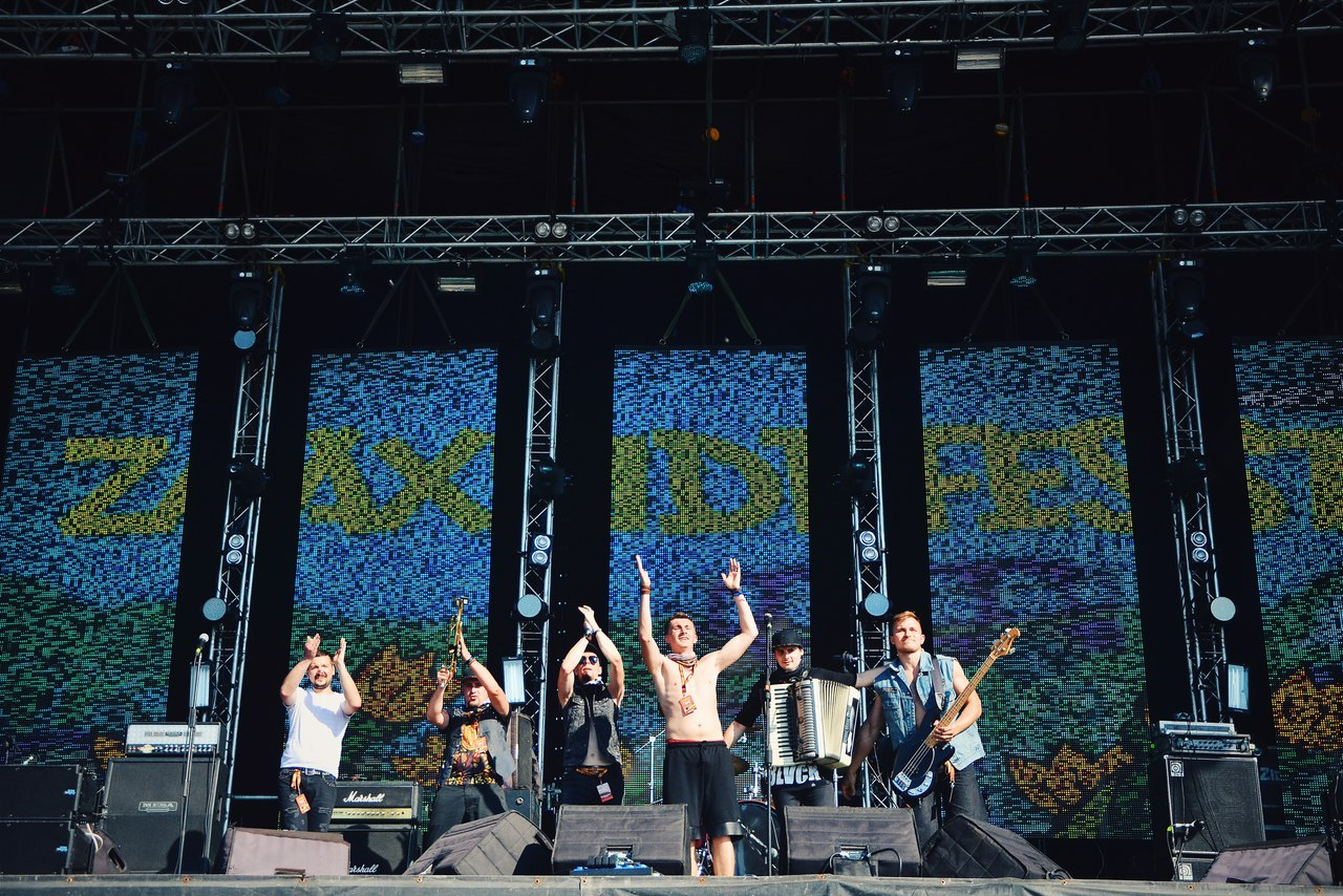 Trystavisim_live_at_zaxidfest_2016